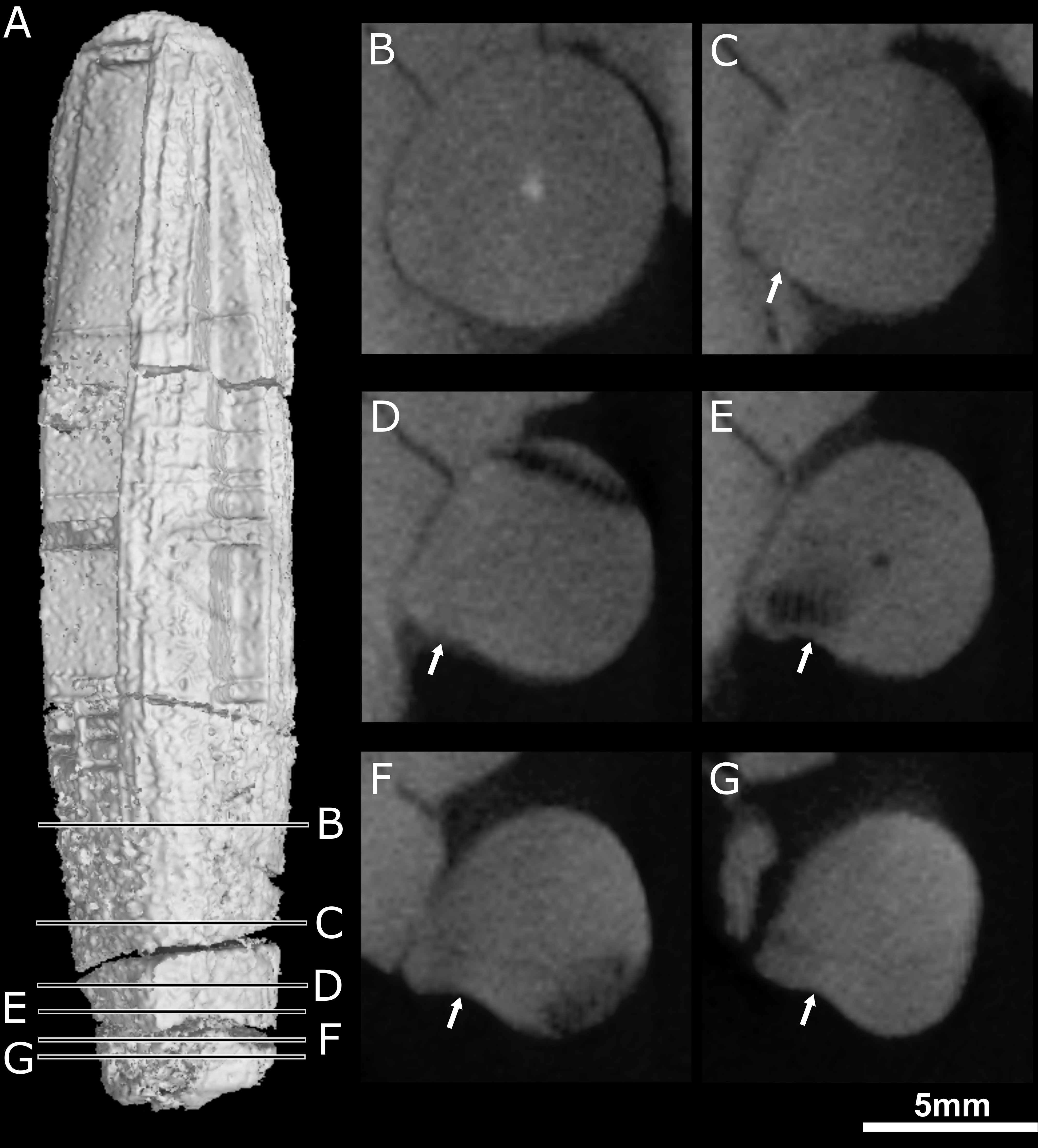 Transverse CT sections through the right canine of Euchambersia skull NHMUK 5696. The position of each section is shown on the canine (A, the tooth root is up). The white arrows point to the shallow invagination at the base of the ridge.